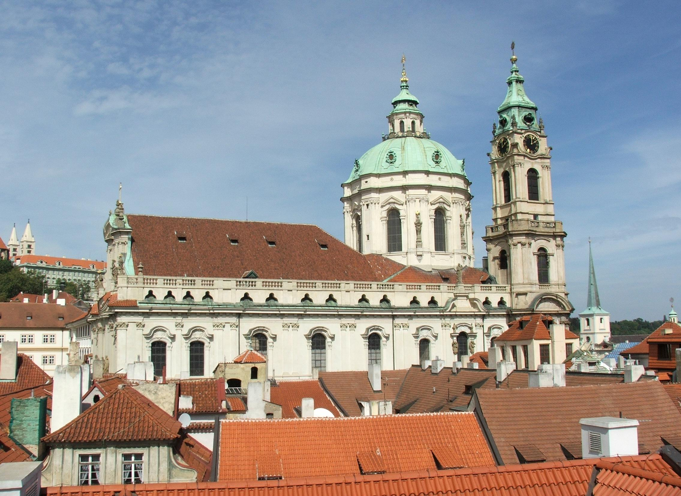 Church of St. Nicholas, Malá Strana - Prague 2006 (taken from south from the roof of Aria Hotel